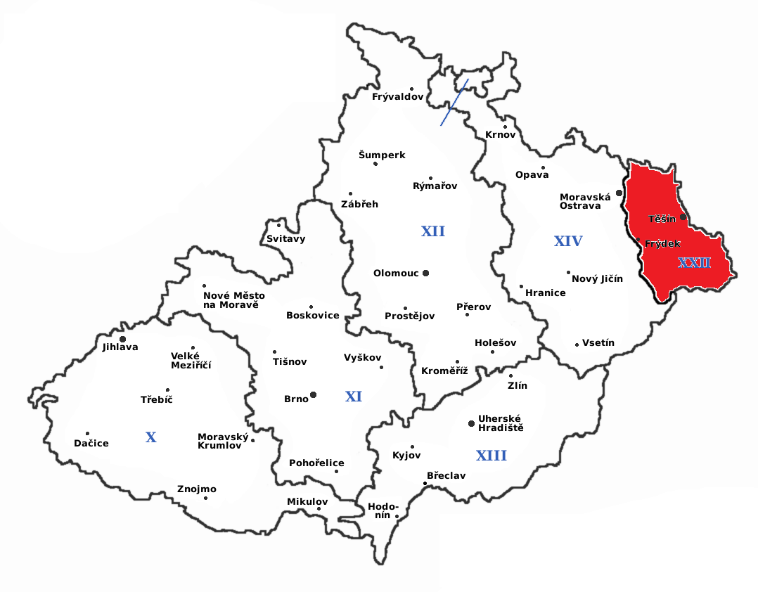 Electoral districts in Moravia-Silesia (valid from the Spa Conference of 1920 until the abolition of XXII Tesin in 1925), XXII Tesin highlighted. Based upon File:Neuskutečněné župní rozdělení Moravy a Českého Slezska z roku 1920.png